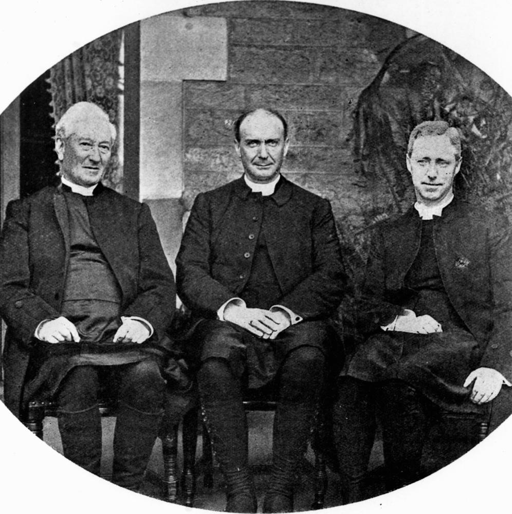 Consecration of Dr. G. D. Halford as Bishop of Rockhampton, 1909. L to R: Bishop Cooper (Grafton), Archbishop Donaldson (Brisbane), and Bishop Halford. (Description supplied with photograph.).